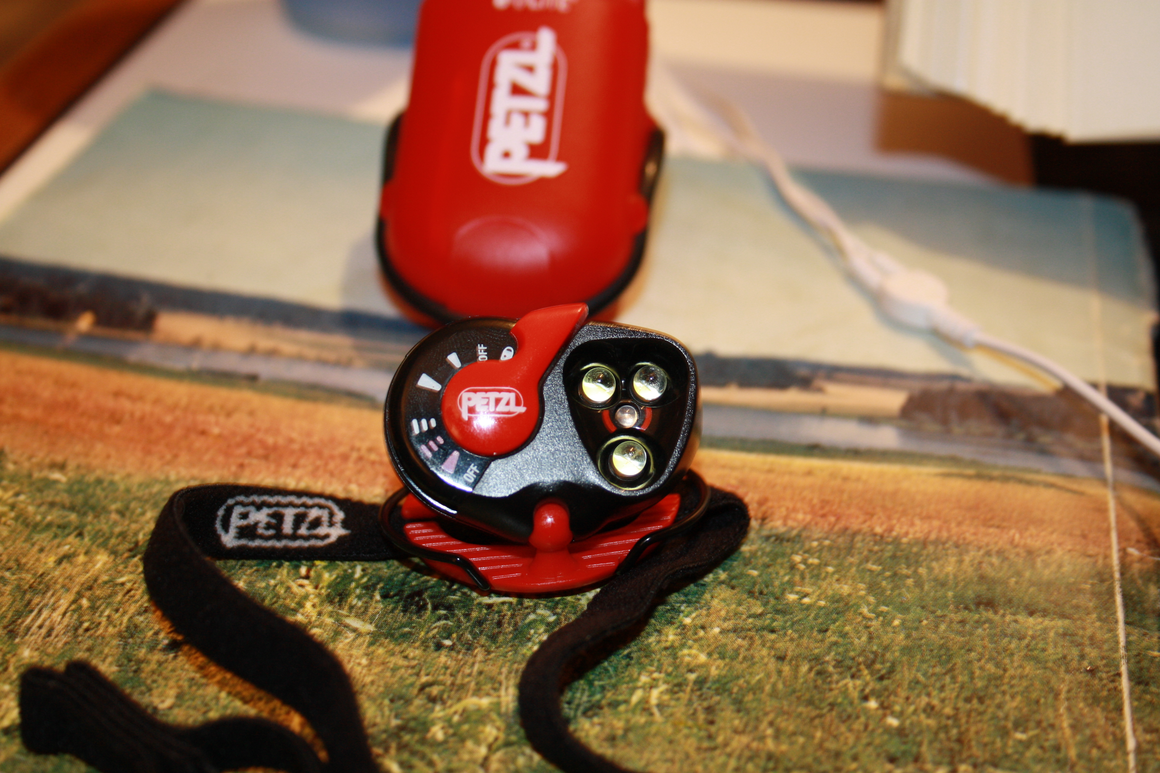 Petzl LED outdoor headlamp, off position.